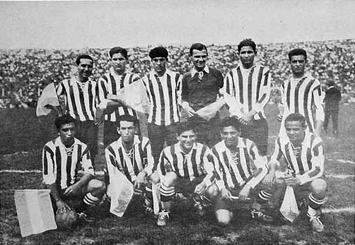 Paraguay national football team at the 1929 Campeonato Sudamericano.